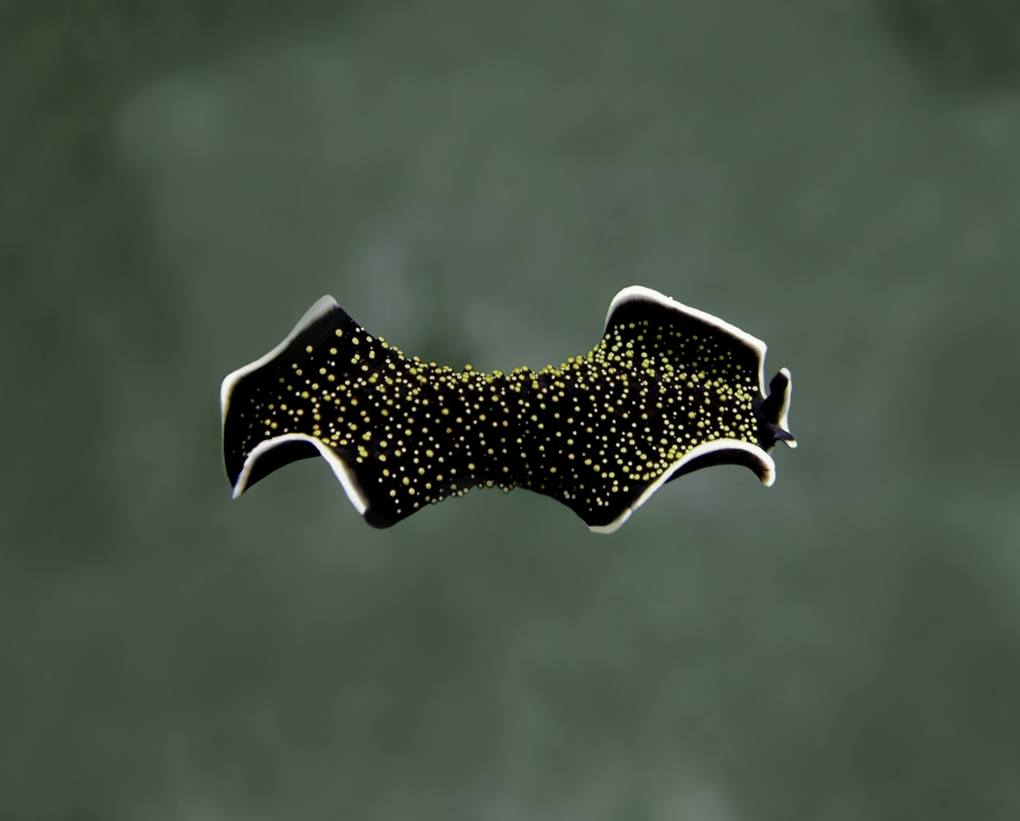 Yellow papillae flatworm (Thysanozoon nigropapillosum) swimming at 40 ft (12 m) depth, Manta Ray Bay, Yap, Federated States of Micronesia.